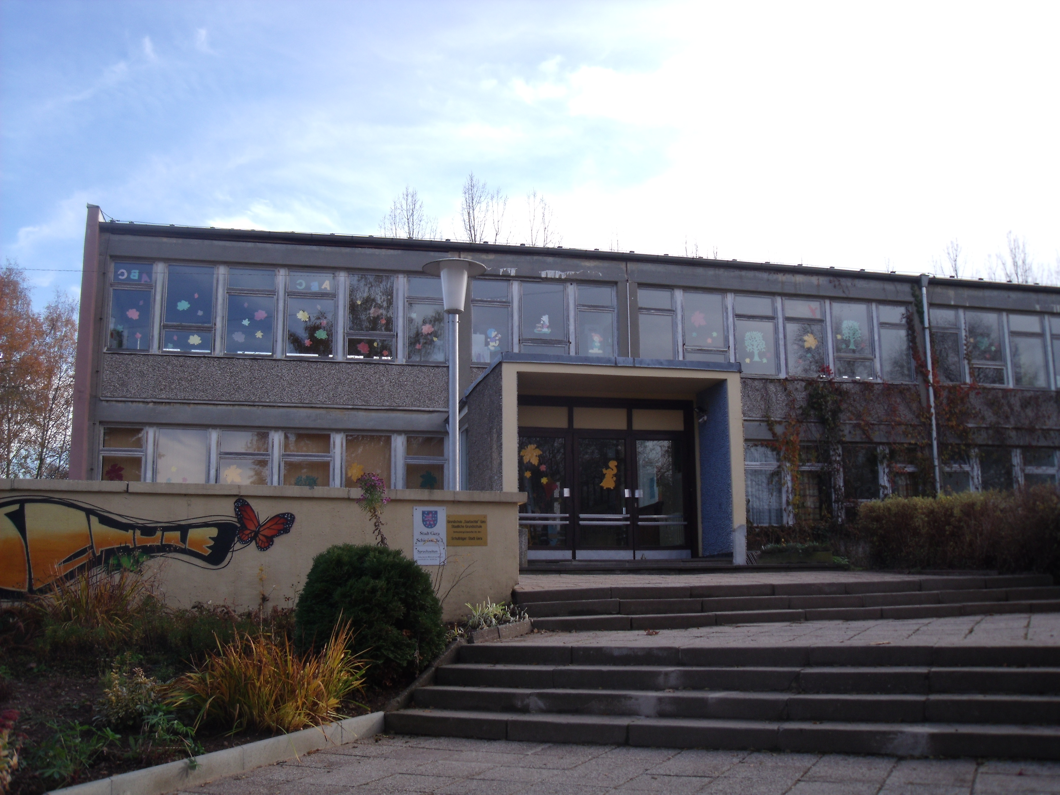 Am Saarbachtal elementary school in Scheubengrobsdorf, Gera, Germany, in November 2011; former 12. Polytechnische Oberschule W.I. Lenin, opened in 1965